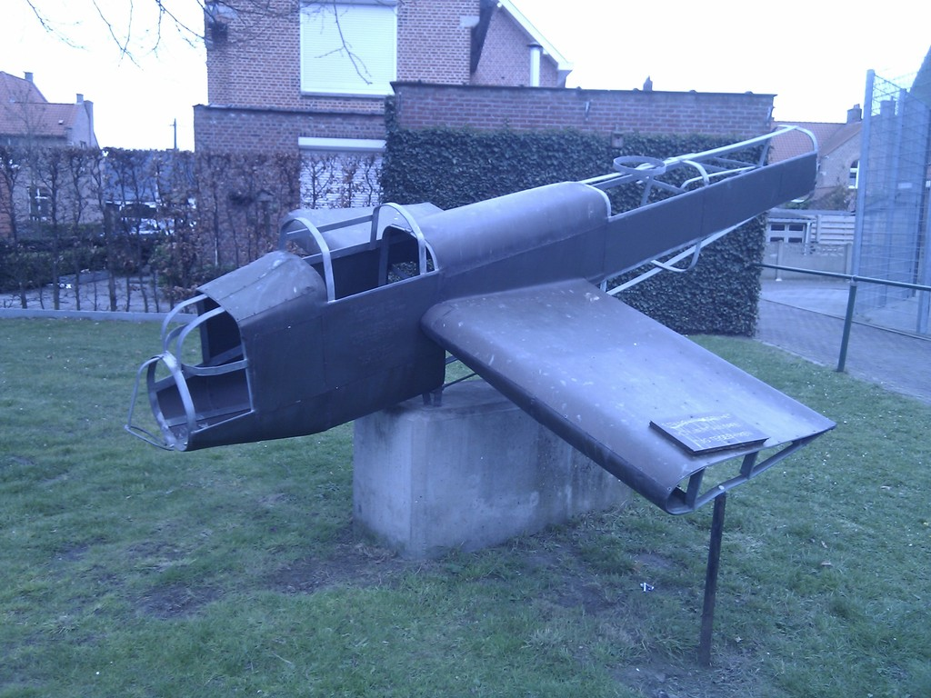 RAF Memorial in Lier, Belgium, remembering crashed Avro Lancaster ED840, of 156 Squadron